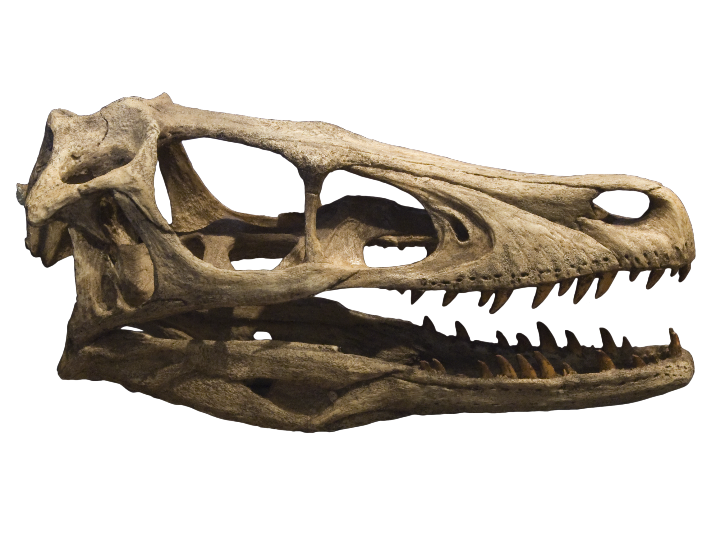 Velociraptor skull